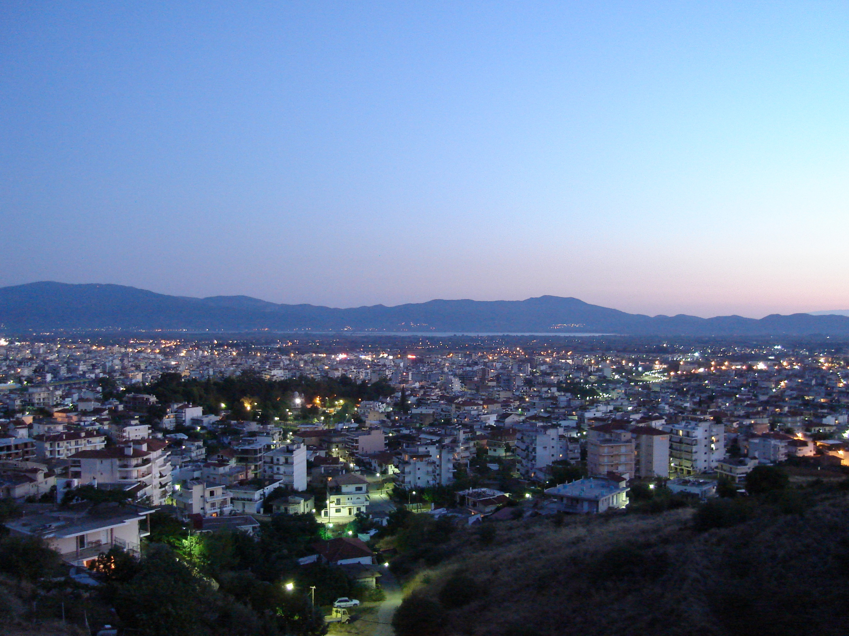 View on the city of Agrinio in Greece in the Evening. In background Lysimachia lake visible.